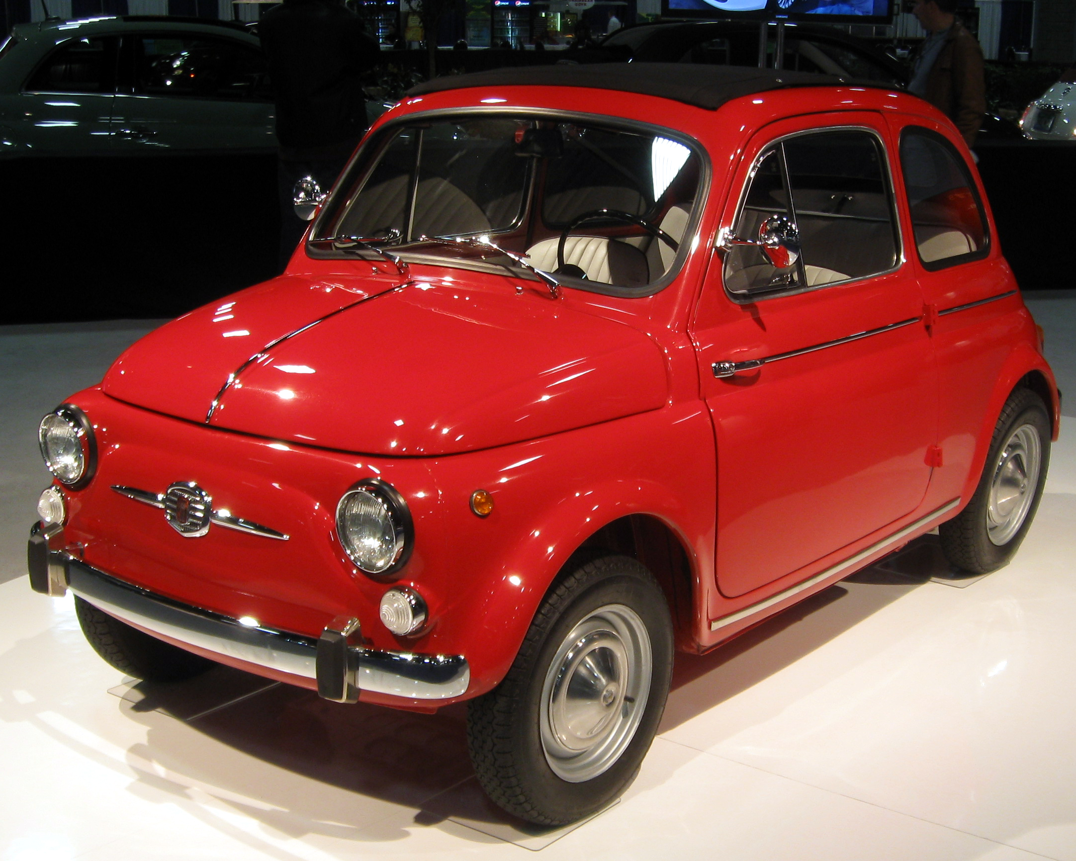 1962 Fiat 500 photographed in Washington, D.C., USA.